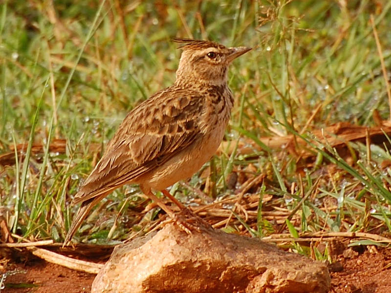 Malabar Lark in found in the Western Ghats of India. Found this lone bird foraging on the ground in the outskirts of the city.